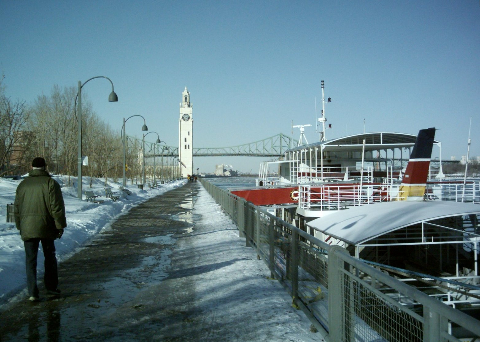 Big Ben in Montreal